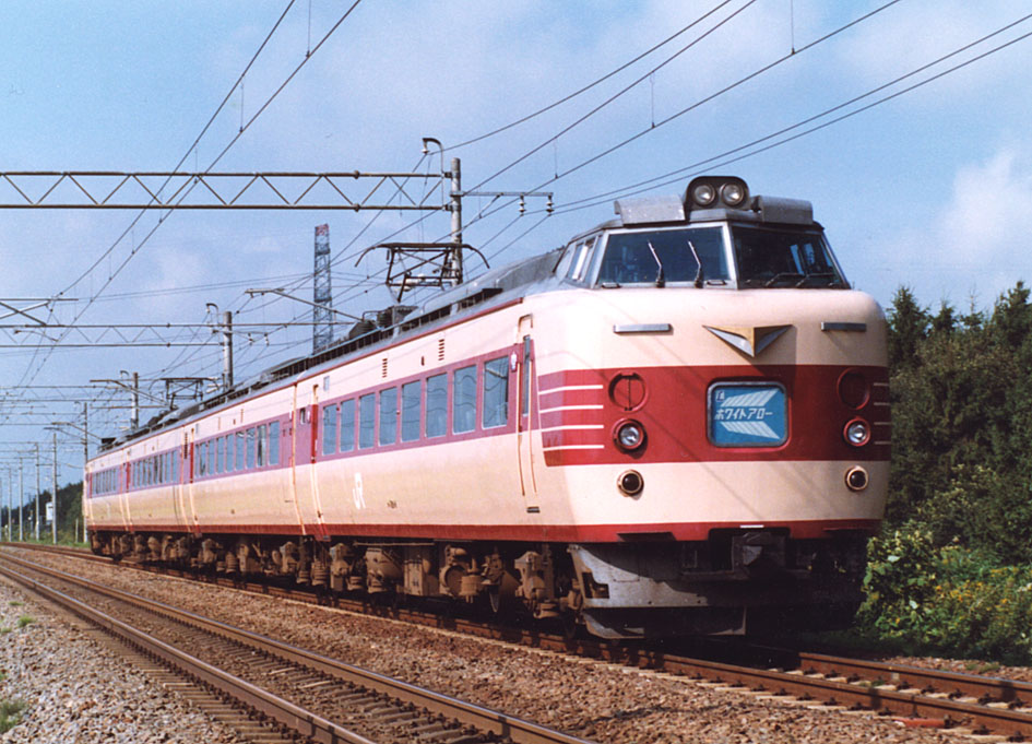 JR Hokkaido 781 series EMU on a "White Arrow" limited express service near Toyohoro Station